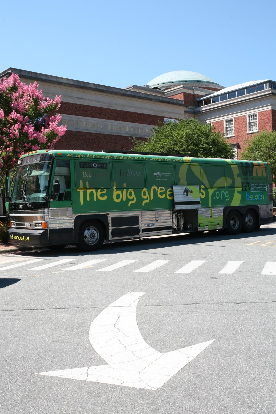 This image shows the Big Green Bus parked at the Morehead Planetarium in Chapel Hill, North Carolina.